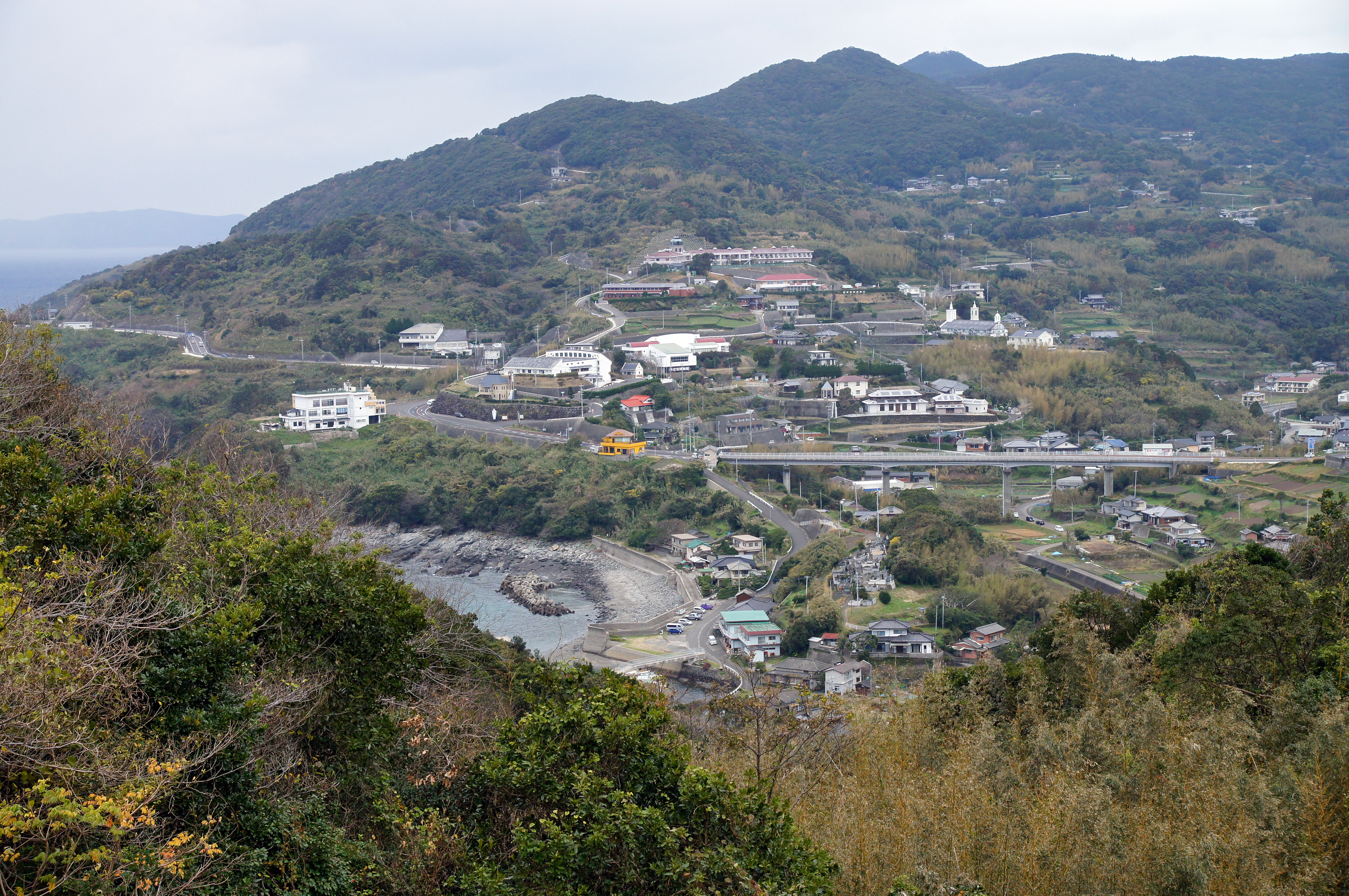 At Sotome, Nagasaki City, Nagasaki prefecture, Japan